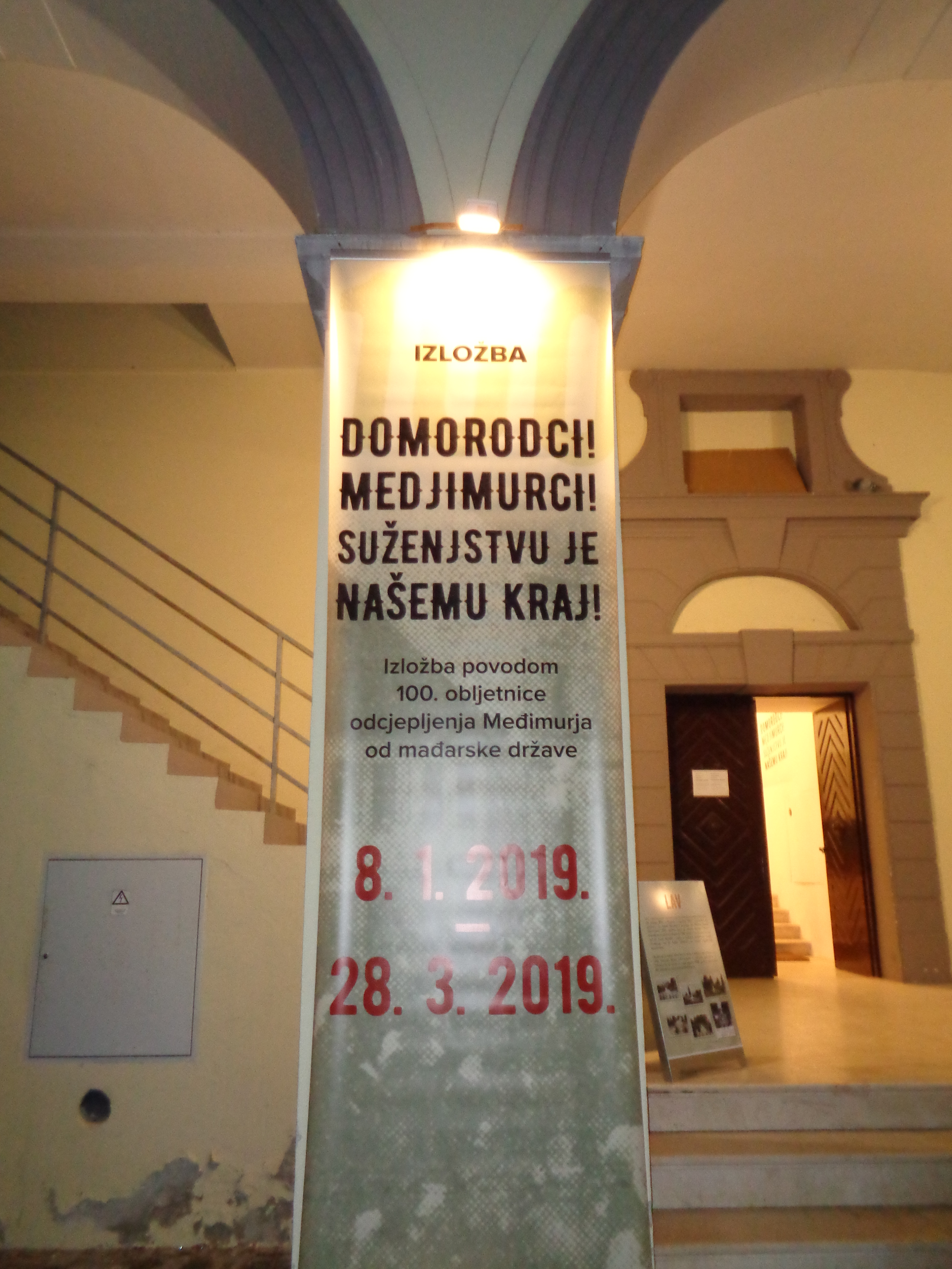 Medjimurje County Museum in Čakovec (Croatia) - exhibition of the 100th anniversary of the liberation of Medjimurie, northern Croatia, and separation from Hungary on 9th January 1919